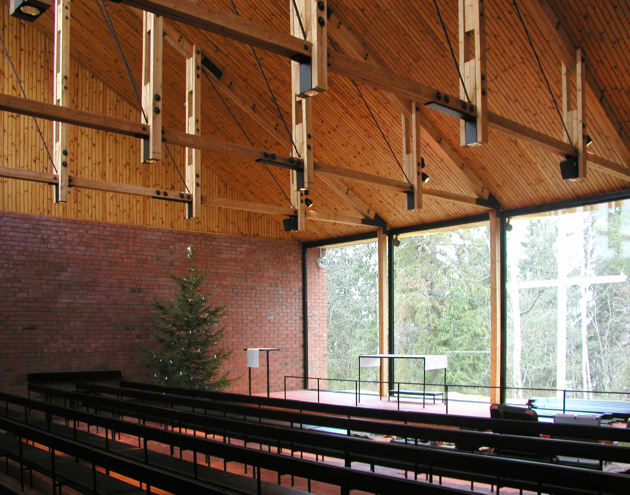 Otaniemi Chapel interior, architects Heikki and Kaija Sirén